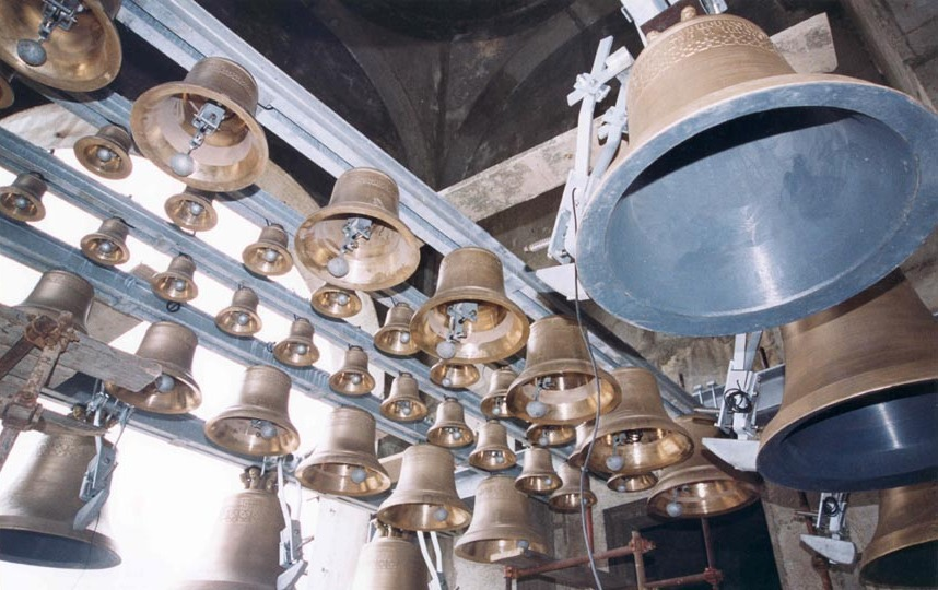 carillon nw tower church of saint sava